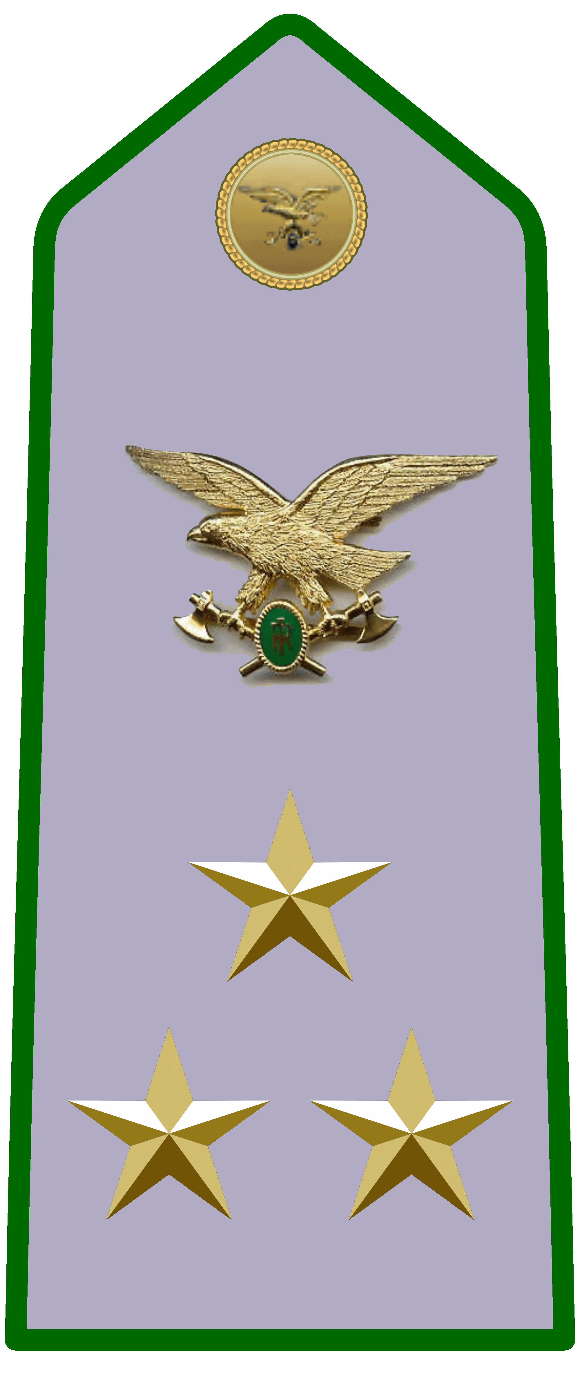 Rank insigna of "Commissario" of the Italian "Corpo Forestale dello Stato".